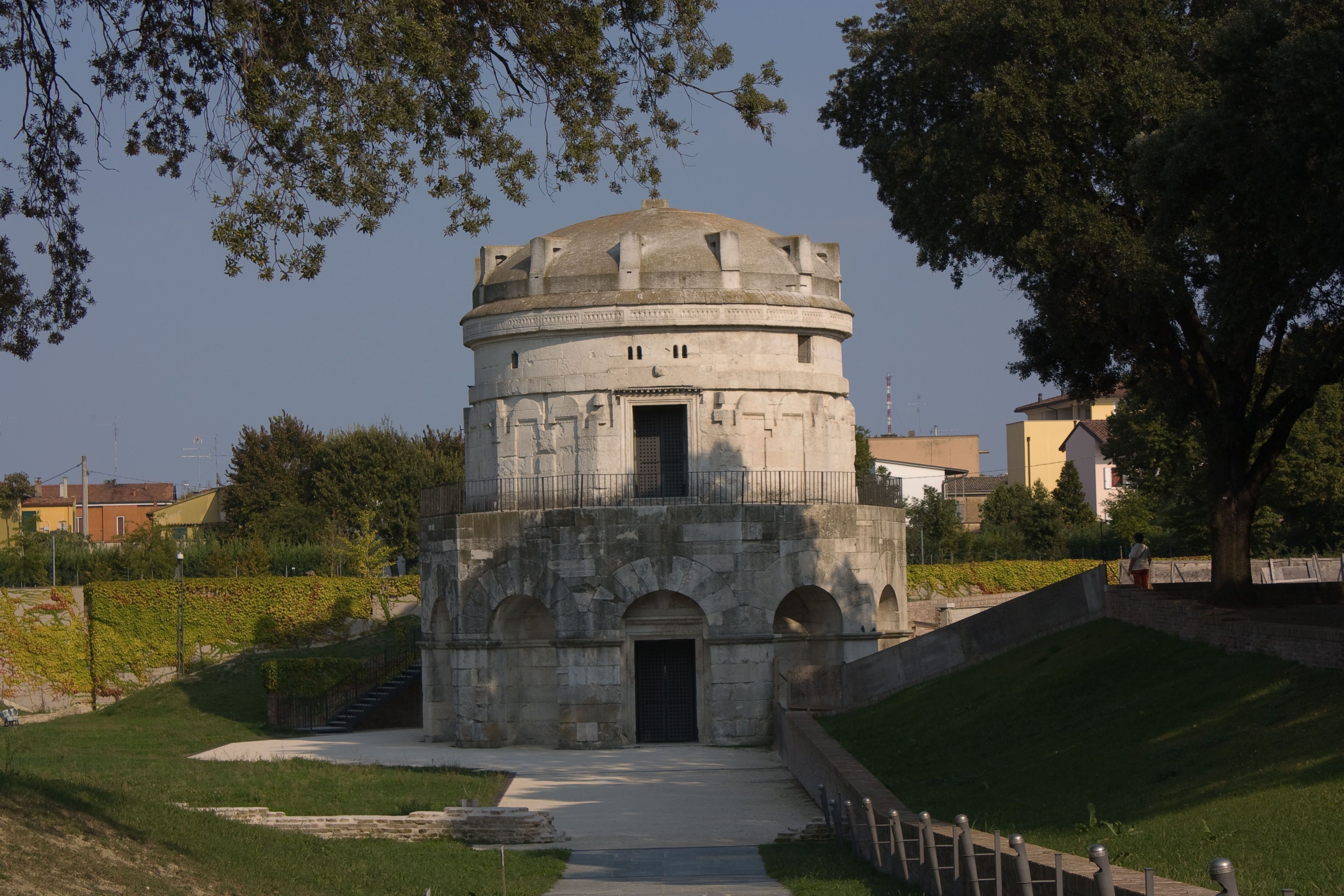 Mausoleum of Theodoric the Great, king of the Ostrogoths, in Ravenna, Emilia–Romagna, Italy